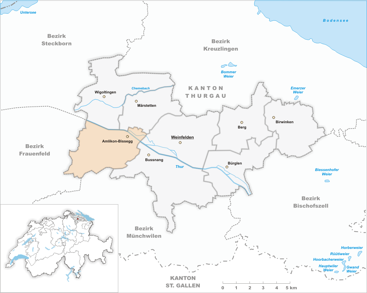 Municipality Amlikon-Bissegg